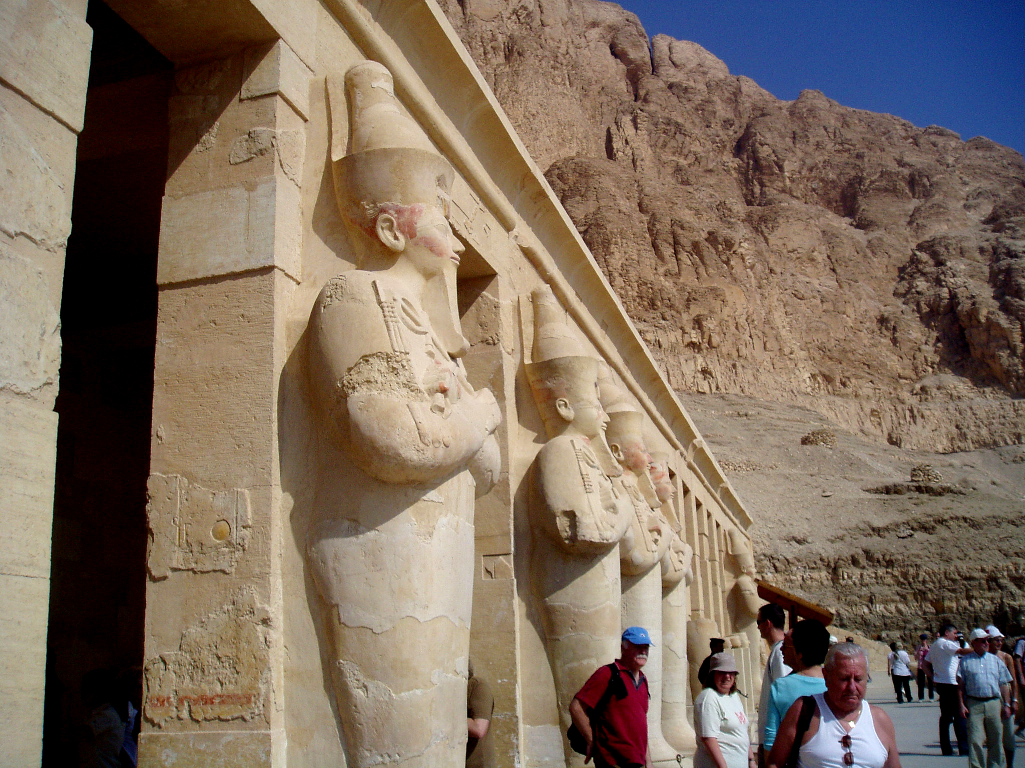 statues of Hatshepsud, Egypt